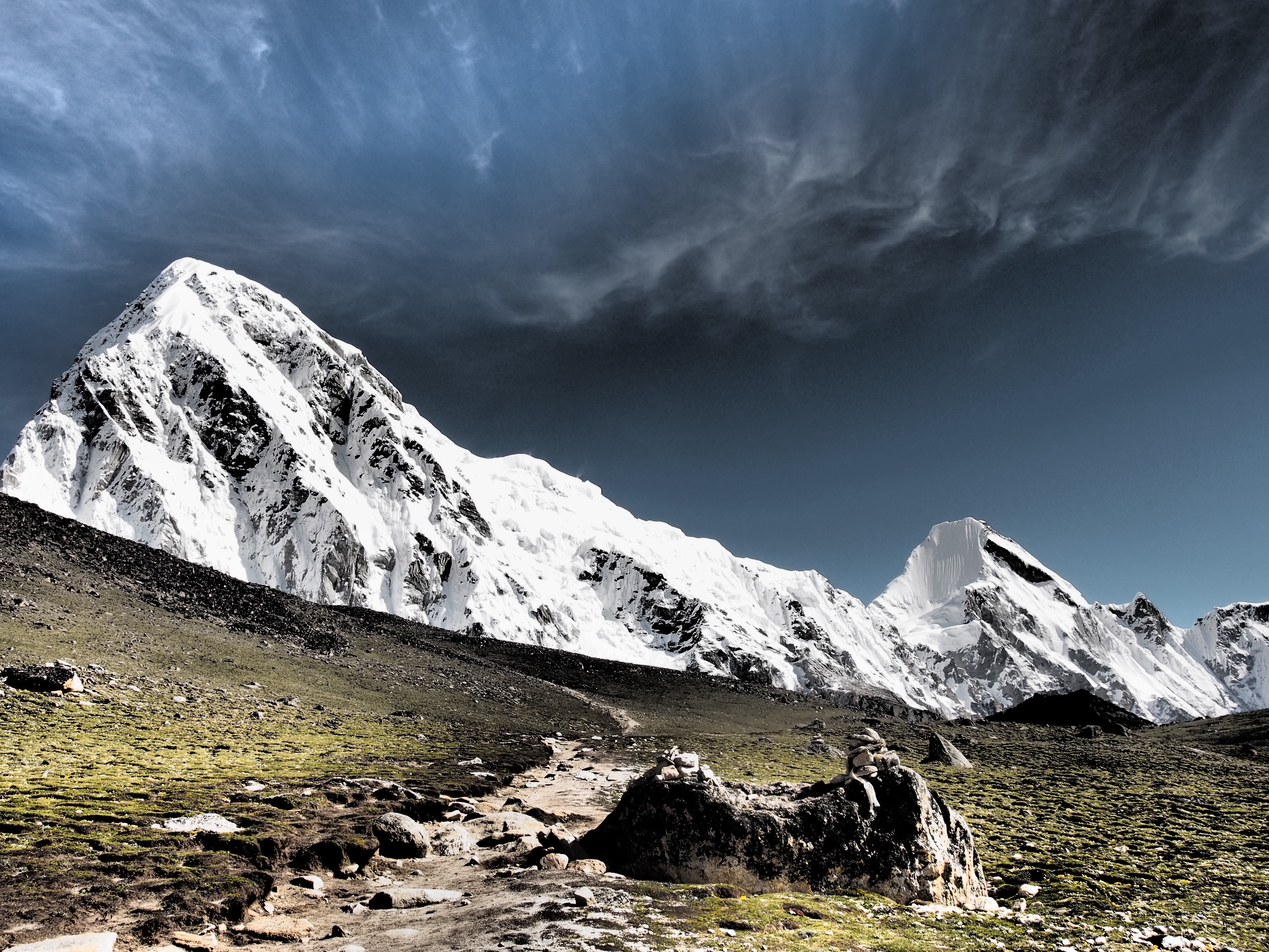 View of Pumori peak from the trail to Kalapattar